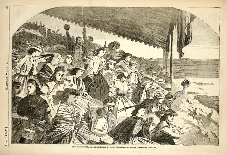 You are viewing an original 1865 drawing by famed artist Winslow Homer of the Race Track at Saratoga. The illustration is an original leaf from an August 1865 edition of Harper's Weekly, the most popular illustrated newspaper of the day.